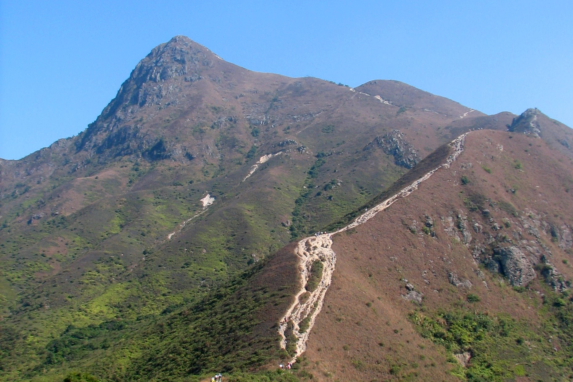 Sharp Peak Hong Kong